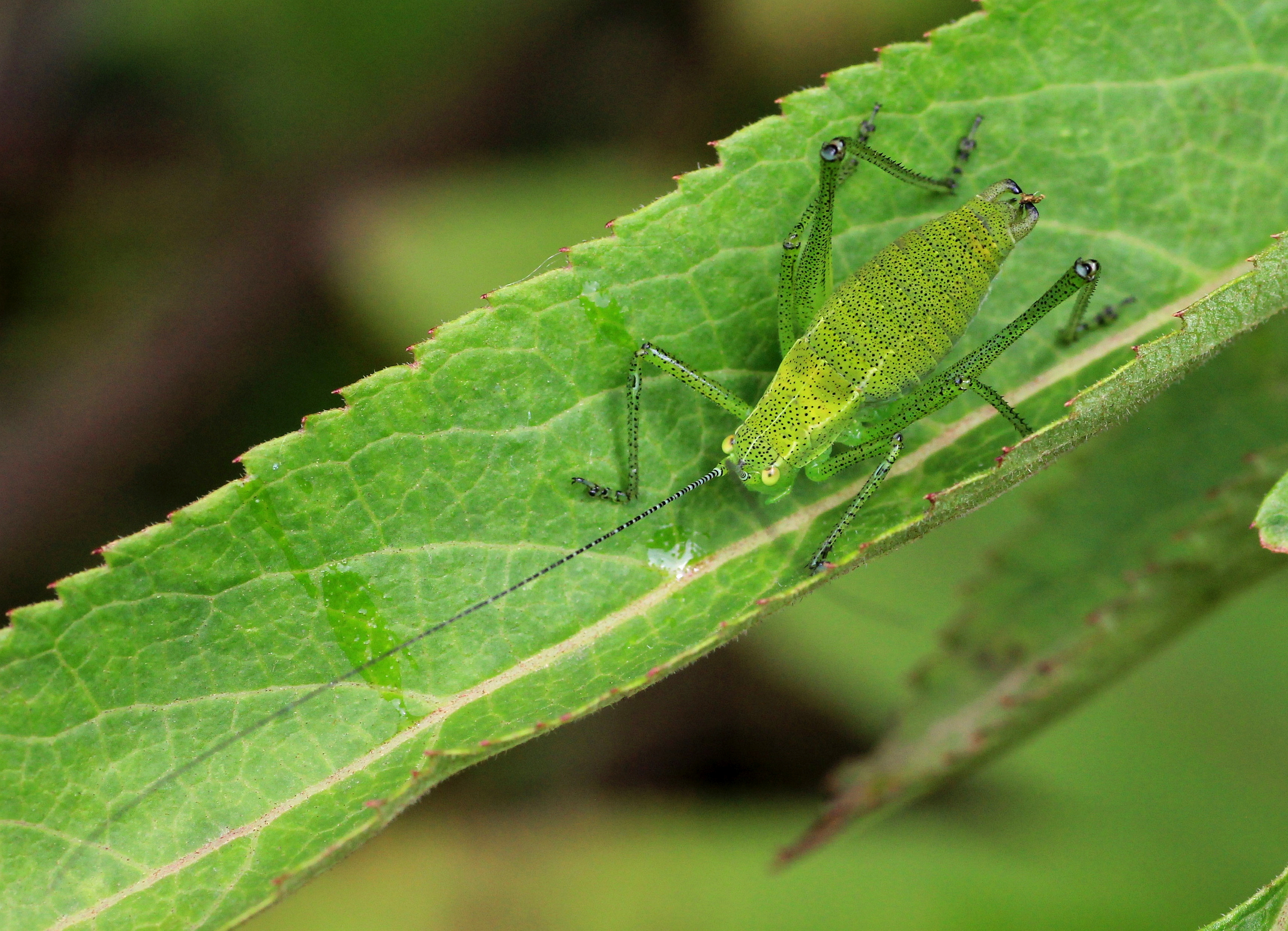 Unidentified Tettigoniidae on a leaf (Ismayilli State Nature Sanctuary 2016-06-12 WDPA ID 94014).